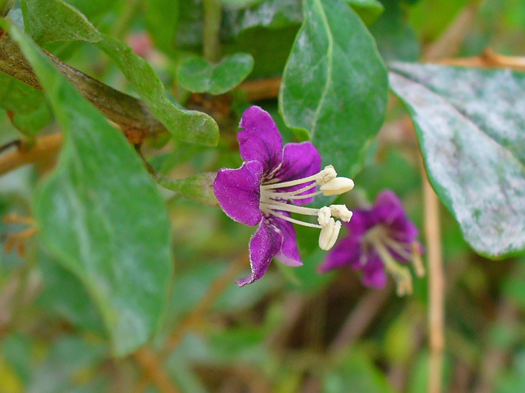 Lycium barbarum, Solanaceae, Wolfberry, Mede Berry, Barbary Matrimony Vine, Bocksdorn, Duke of Argyll's Tea Tree, flower. The fresh, blooming plant is used in homeopathy as remedy: Lycium berberis (Lyci-b.)